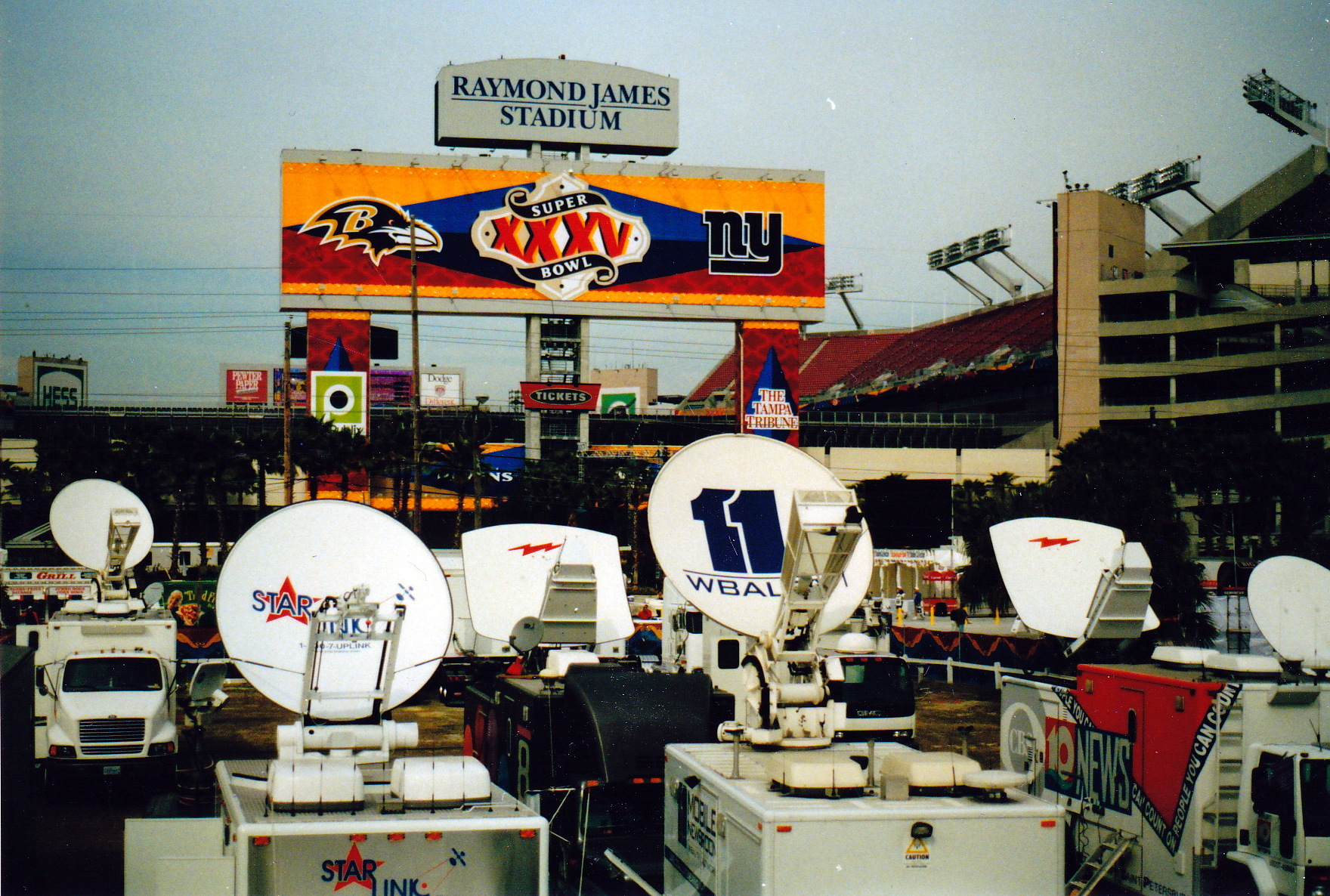 The Super Bowl XXXV broadcasting compound outside Raymond James Stadium in Tampa, Florida.